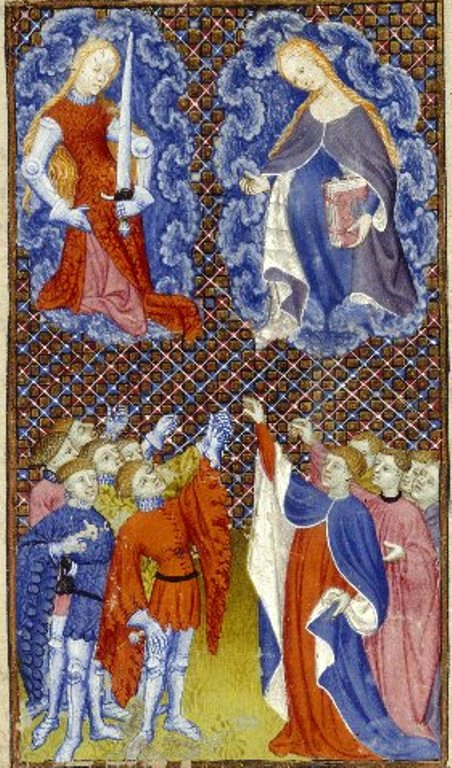 Minerva holding a sword and a shield and Pallas Athene holding a book